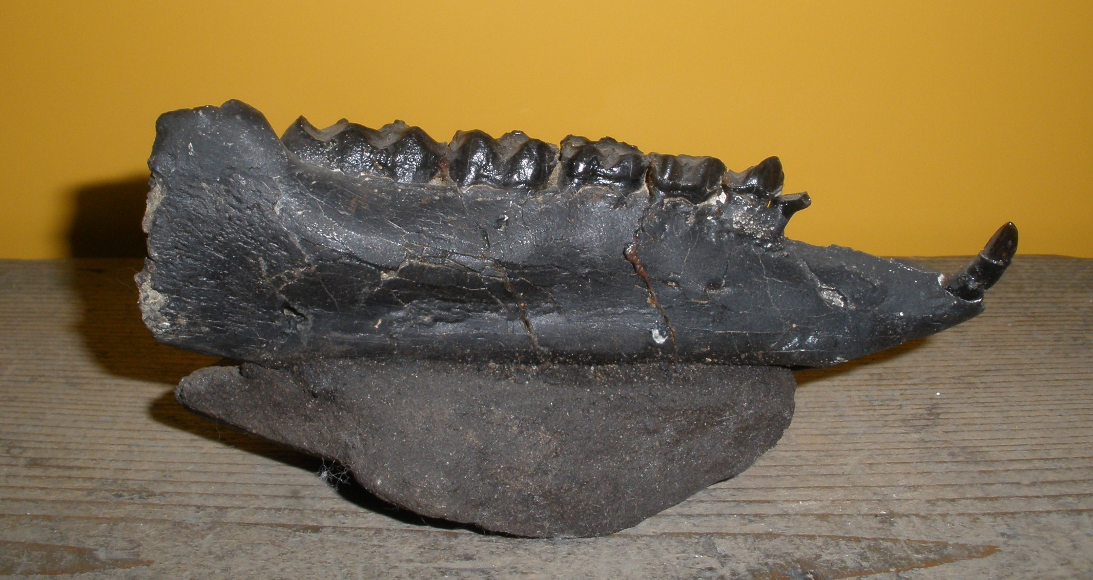 Fossil of Plagiolophus annectens, an extinct mammal Took the photo at Museo di Storia Naturale, Milano